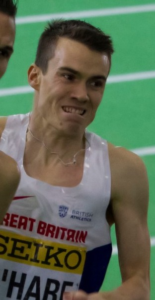 Chris O'Hare competing at the 2016 IAAF World Indoor Championships